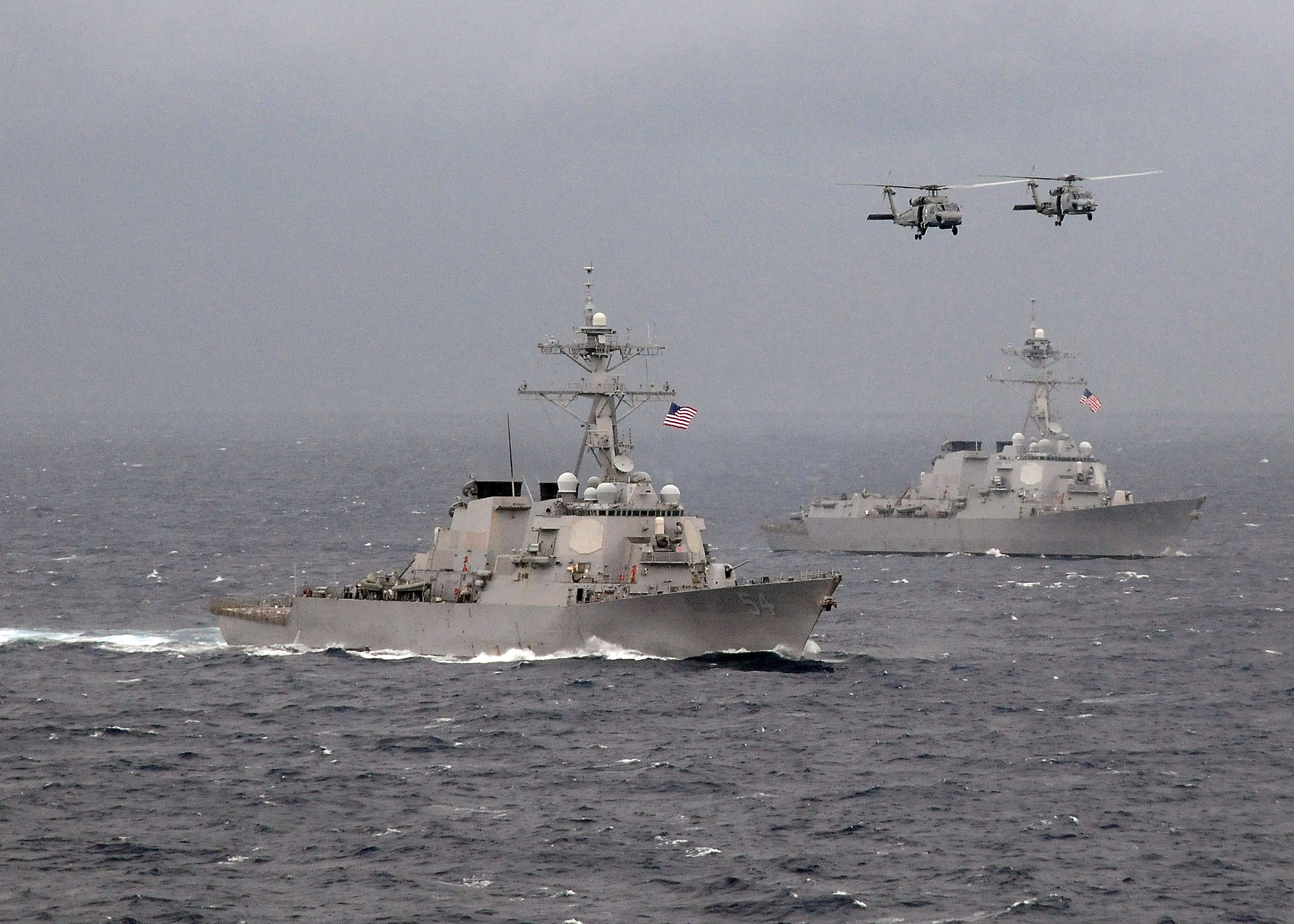 PACIFIC OCEAN (Nov. 17, 2009) The guided-missile destroyers USS Lassen (DDG 82) and USS Curtis Wilbur (DDG 54) are underway in the Pacific Ocean. Ships from the U.S. Navy and Japan Maritime Self-Defense Force are participating in Annual Exercise (ANNUALEX 21G), a bilateral exercise designed to enhance the capabilities of both naval forces. (U.S. Navy photo by Mass Communication Specialist 1st Class John M. Hageman/Released)